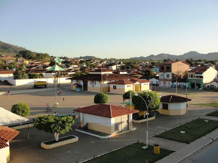 panorama of Maiquinique